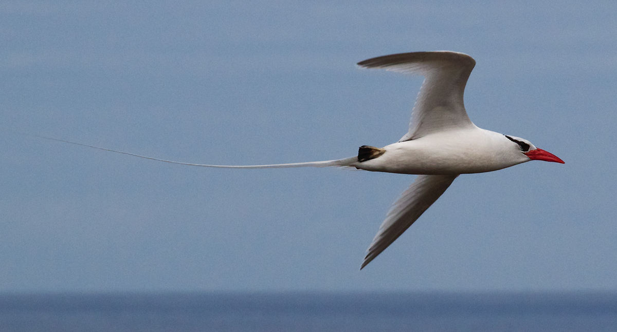 Red-billed Tropicbird photo taken on Genovesa Island, Galapagos, Ecuador.